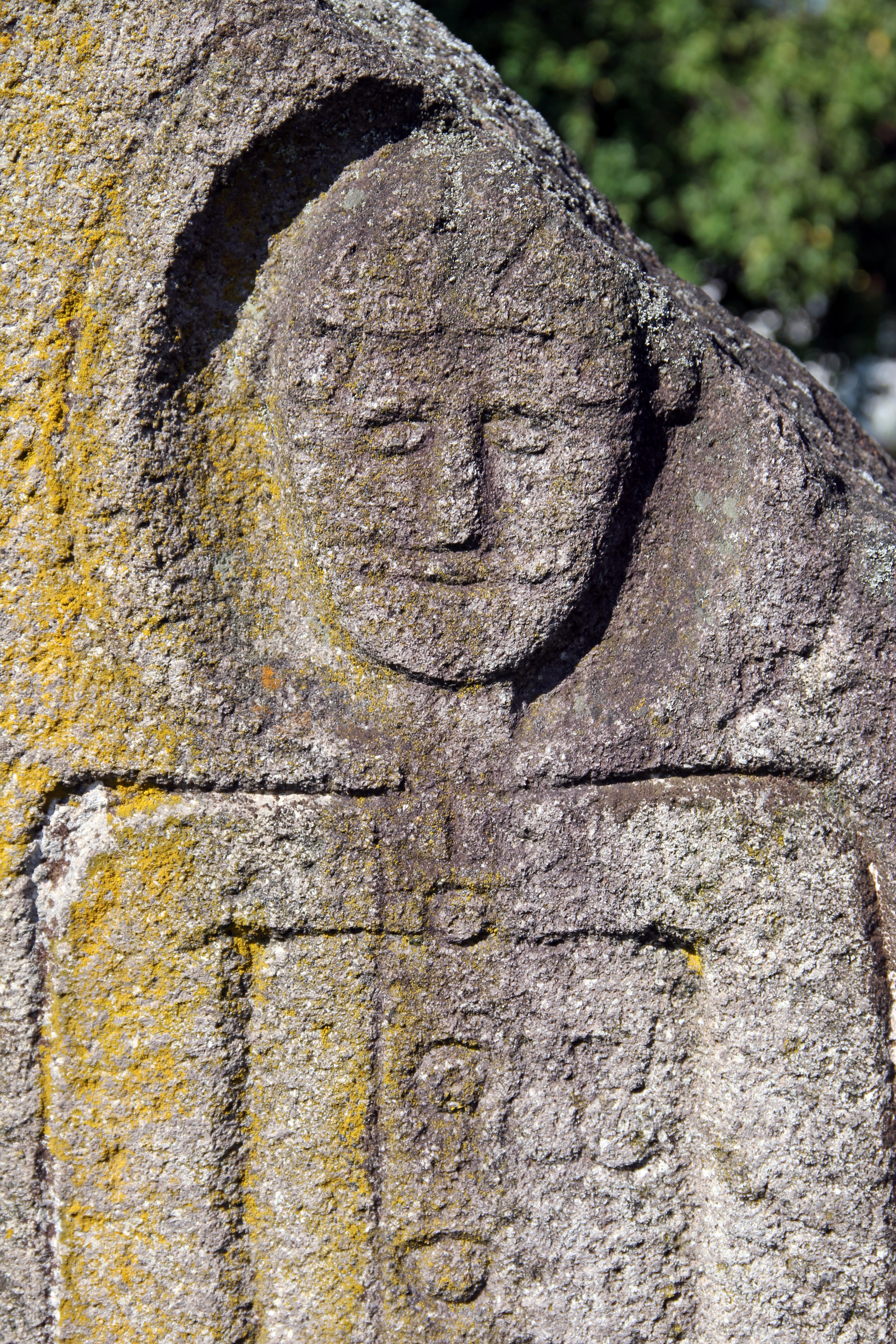 Roadside tombstone erected in memory of the sergeant Tanasije Milic. It is located at the entrance to Gornji Milanovac (the former area of village Nevade), nearby the factory "Metalac".